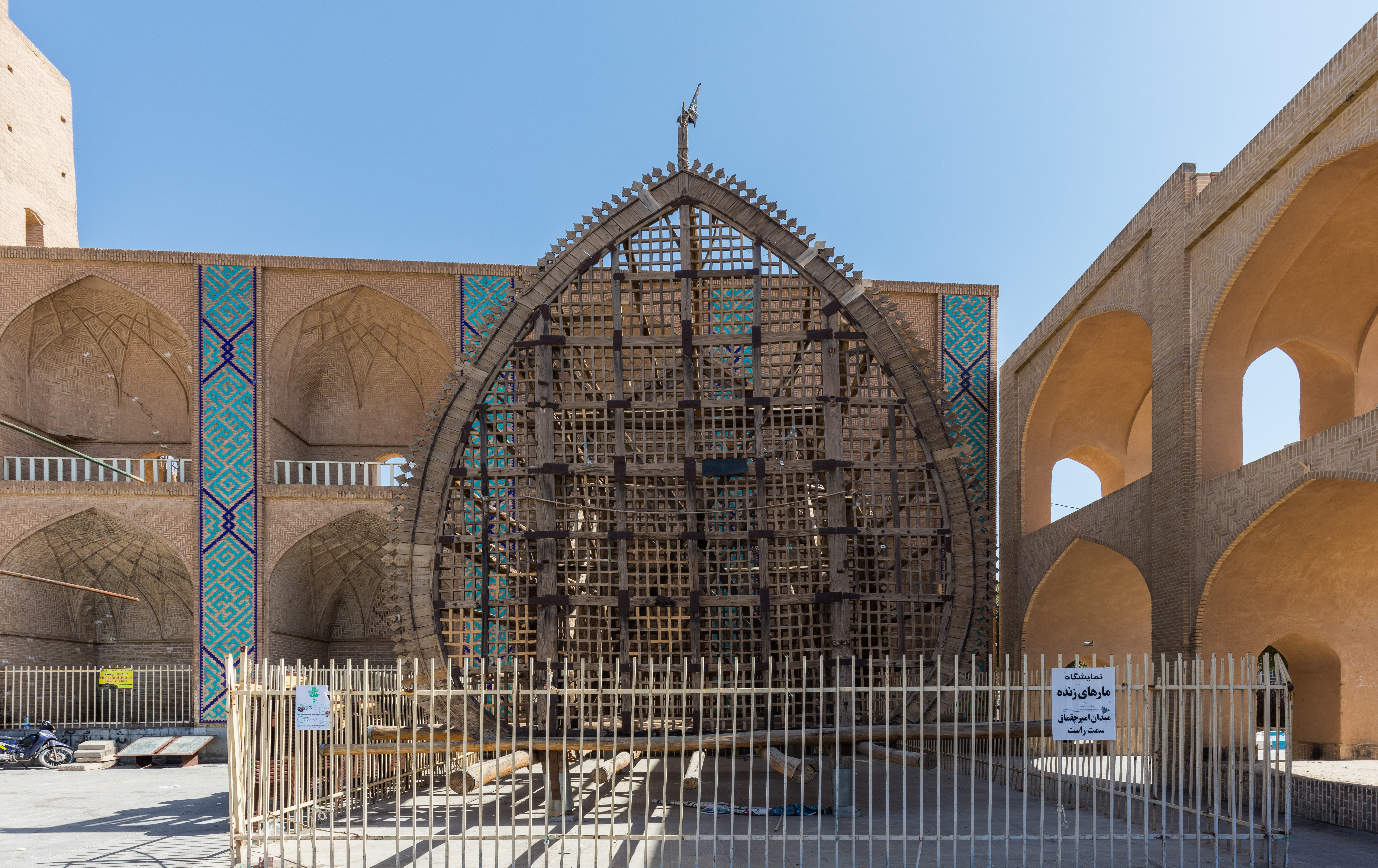 Nakhl in Yazd, Iran